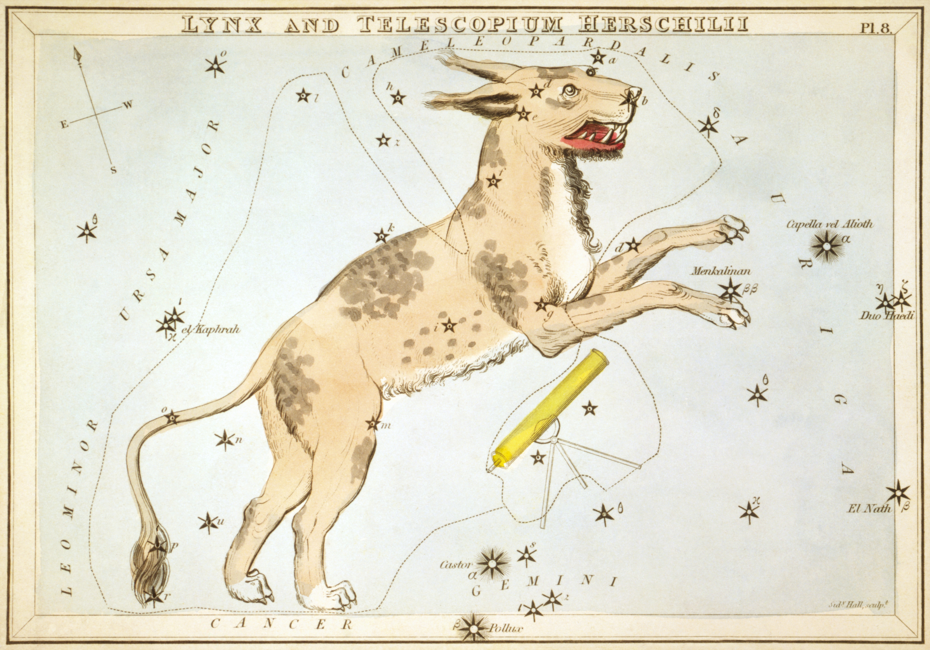 "Lynx and Telescopium Herschilii", plate 8 in Urania's Mirror, a set of celestial cards accompanied by A familiar treatise on astronomy ... by Jehoshaphat Aspin. London. Astronomical chart, 1 print on layered paper board : etching, hand-colored.